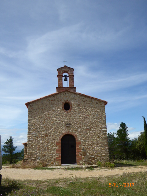 Chapel of St. Luc de Puigrodon in the departement Pyrenées-Orientales, France, near Passa and Perpignan